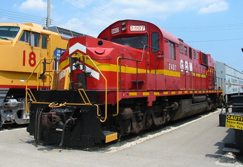 Green Bay and Western Railroad 2407, an ALCO RSD-15, at the Illinois Railway Museum